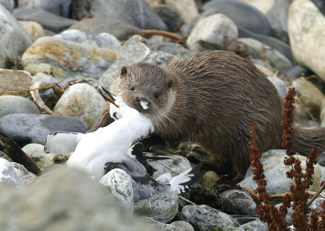 Otter (Lutra lutra) on Westing beach This Otter has just caught a juvenile Kittiwake (Rissa tridactyla), which was still alive when I first saw it, in the jaws of the Otter which was swimming for the beach, where the bird was killed. For more information